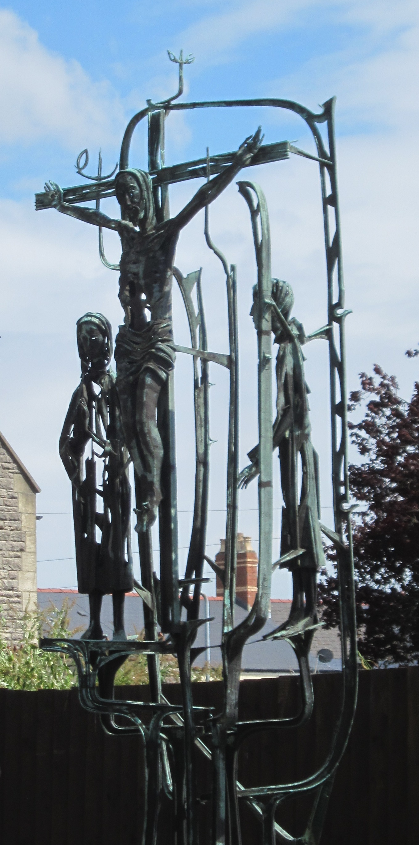 Metalwork crucifixion in the yard adjacent to St German's Church, Adamsdown. Title: Crucifixion with Mary and John, Sculptor: Frank Roper. link